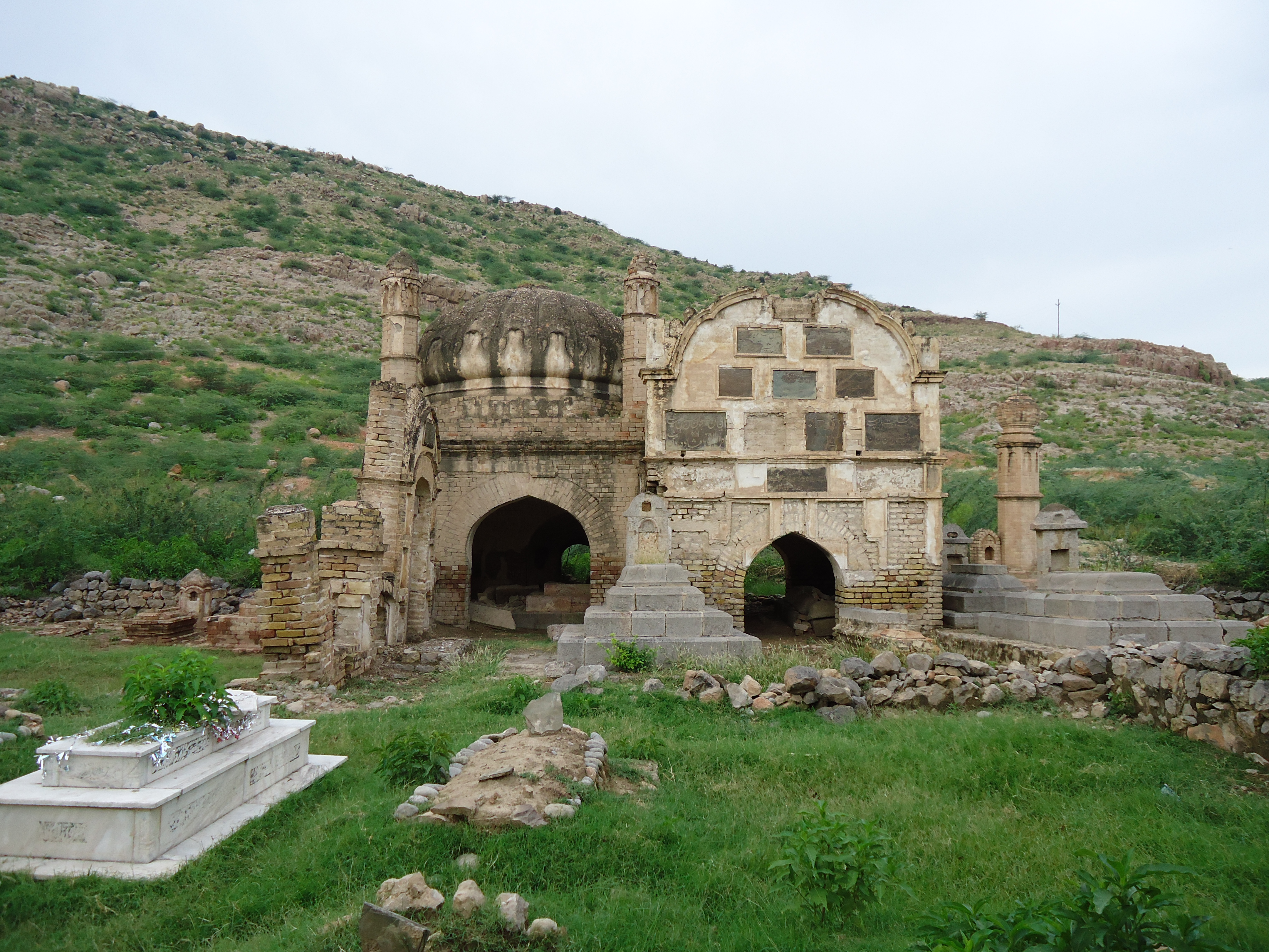 durrani prine tomb and graveyard in shahpur kohat.